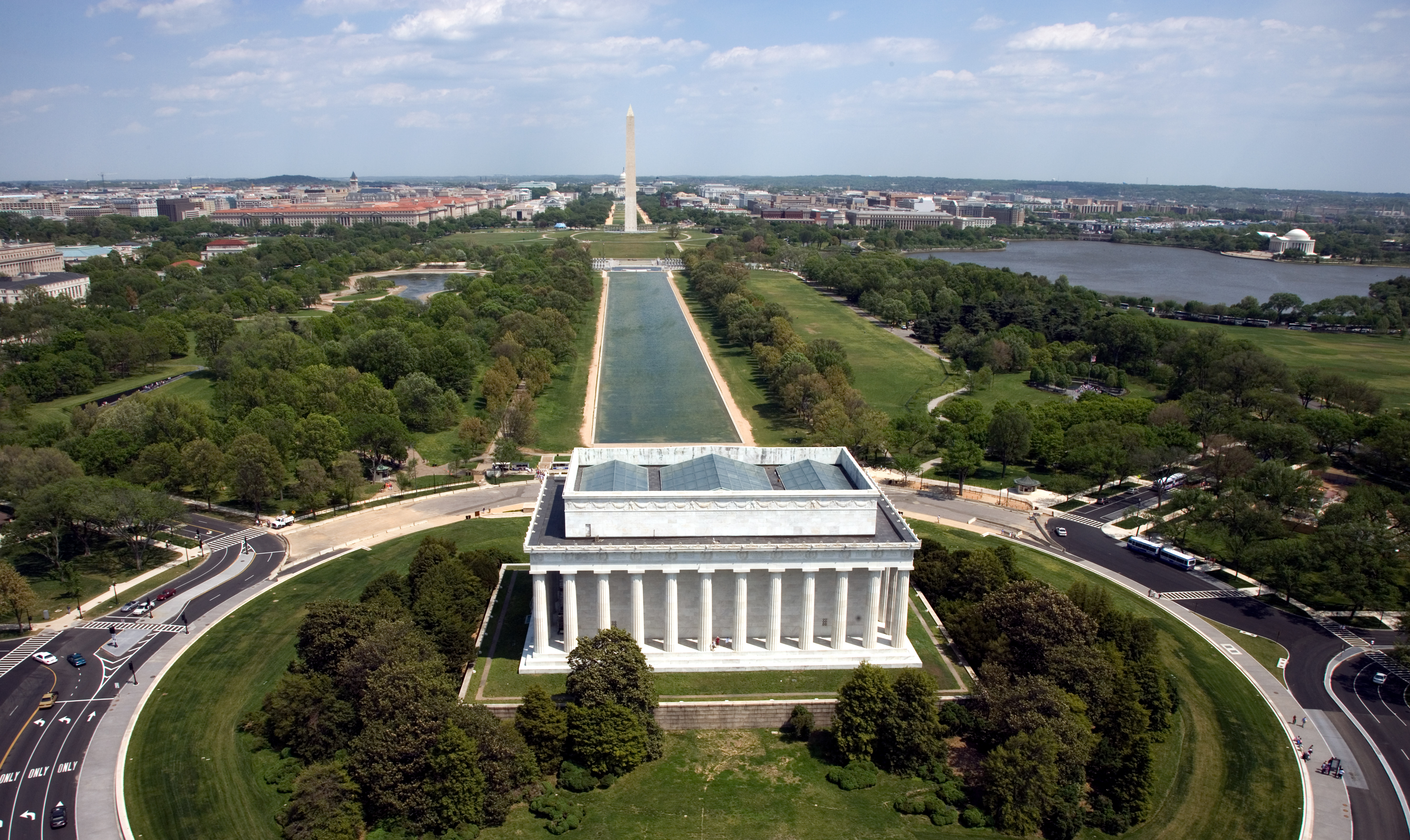 Aerial view of the National Mall in Washington, D.C. The Lincoln Memorial is in the foreground.